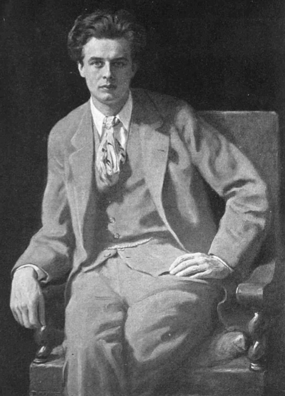 Painting of Aldous Huxley.